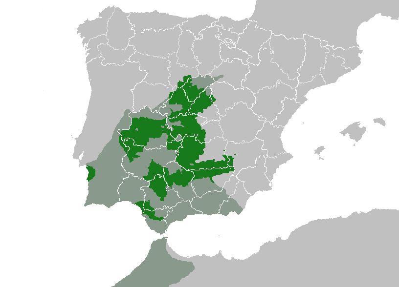 Map of distribution of the Spanish Imperial Eagle (Aquila adalberti) based on: Mullarney,K.; Svensson, L.; Zetterström, D; y Grant, P.J. (2003) "Guía de Campo de las Aves de España y de Europa" Editorial Omega. ISBN 84-282-1218-X.